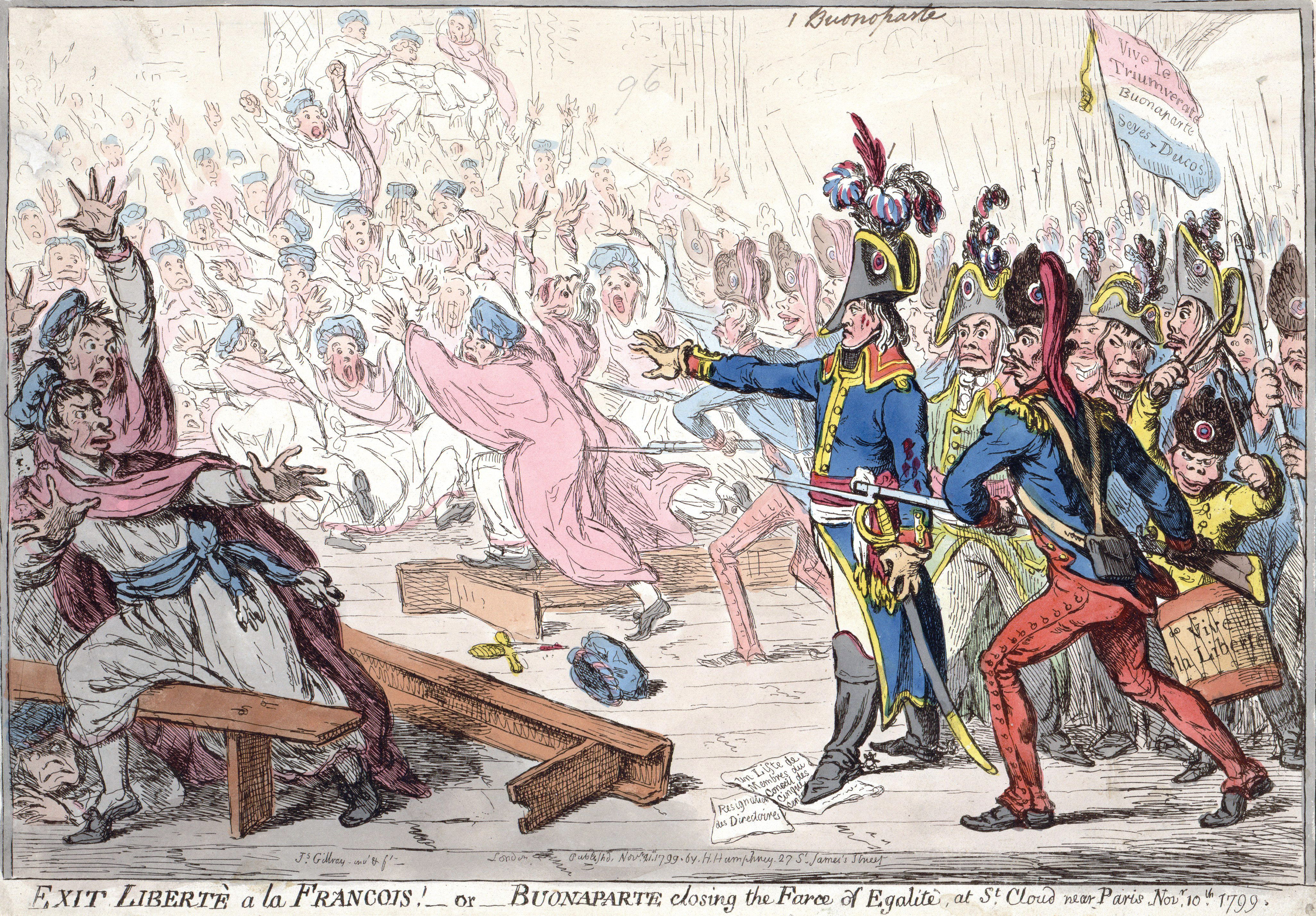 Exit libertè a la Francois!—or—Buonaparte closing the farce of Egalitè, at St. Cloud near Paris Novr. 10th. 1799 / Js. Gillray inv' & f'. SUMMARY: British satire shows Napoleon with his grenadiers driving the members of the Council of Five Hundred from the Orangery at St. Cloud at bayonet point. A drum is labeled "Vive la Liberte," and papers under foot read "Resignation des Directoires" and "Un liste de Membres du Conseil des Cinque Cents." On November 10, 1799, in a move known as the Coup d'État of Eighteenth Brumaire, Napoleon seized control of the French government and installed himself as First Consul, thereafter governing as a dictator. James Gillray was the dominant caricaturist of his period, producing popular savage cartoons of the English court of George III and later of Napoleon and the French Revolution. MEDIUM: 1 print : etching, hand-colored ; 25.2 × 36 cm (sheet) CREATED/PUBLISHED: [London] : Publishd by H. Humphrey 27 St. James's Street, 1799 Novr. 21st. NOTES: Title from item. Catalogue of prints and drawings in the British Museum. Division I, political and personal satires, v. 7, no. 9426 Forms part of: Art Wood Collection of Caricature and Cartoon (Library of Congress). Forms part of: British Cartoon Prints Collection (Library of Congress). Unprocessed in WOOD/Gillray.118 Hoff, Syd. Editorial and political cartooning, p. 38; Parton, James, Caricature and other comic art, p. 153, 267–68 — ljr